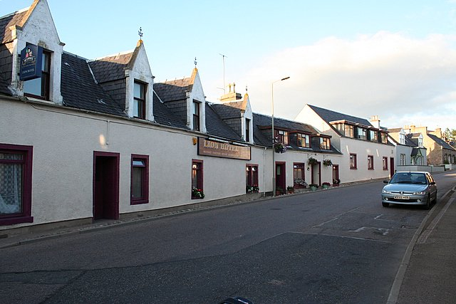 Street in Auldearn